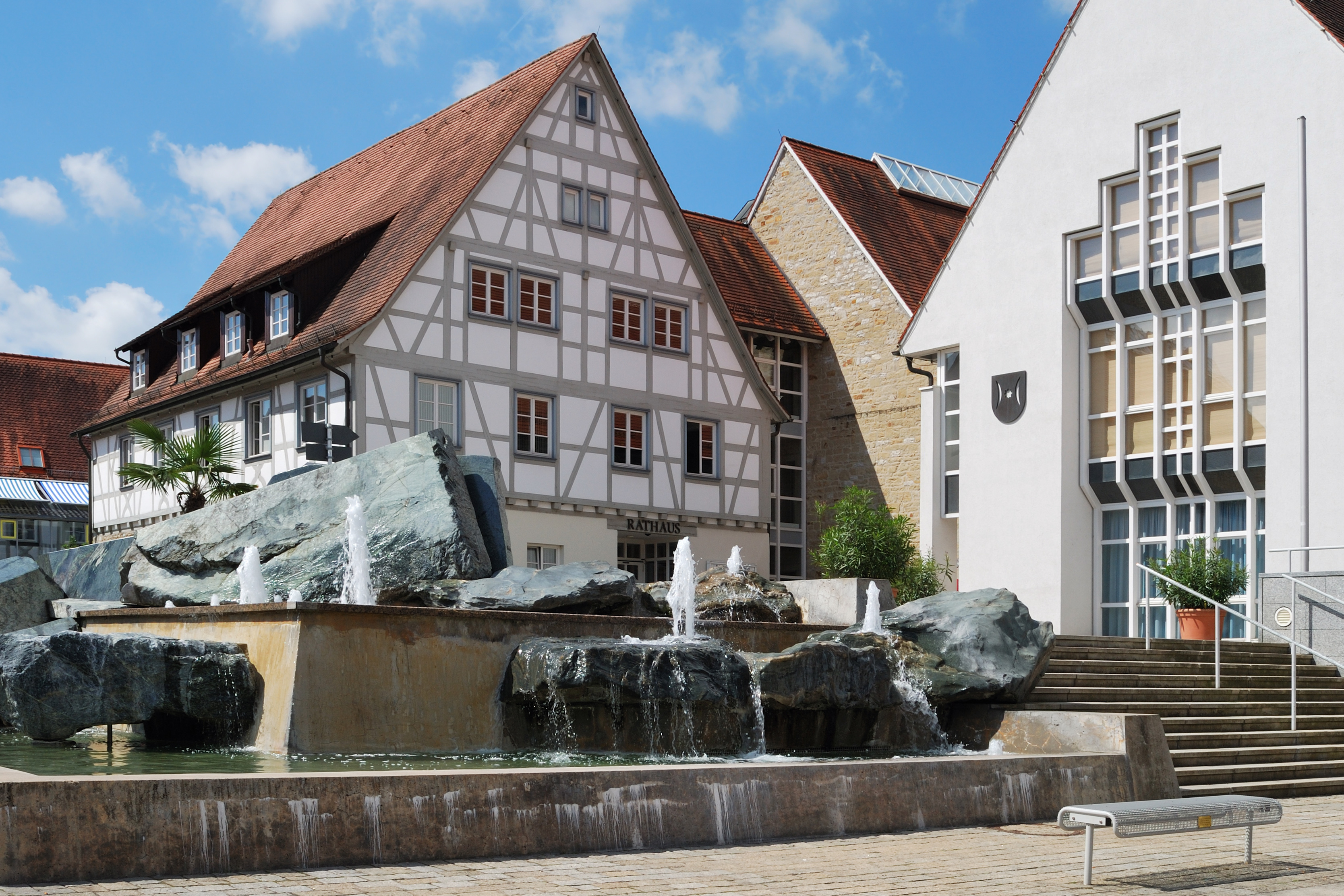 The city hall in Schwieberdingen in the federal state Baden-Württemberg in Germany.